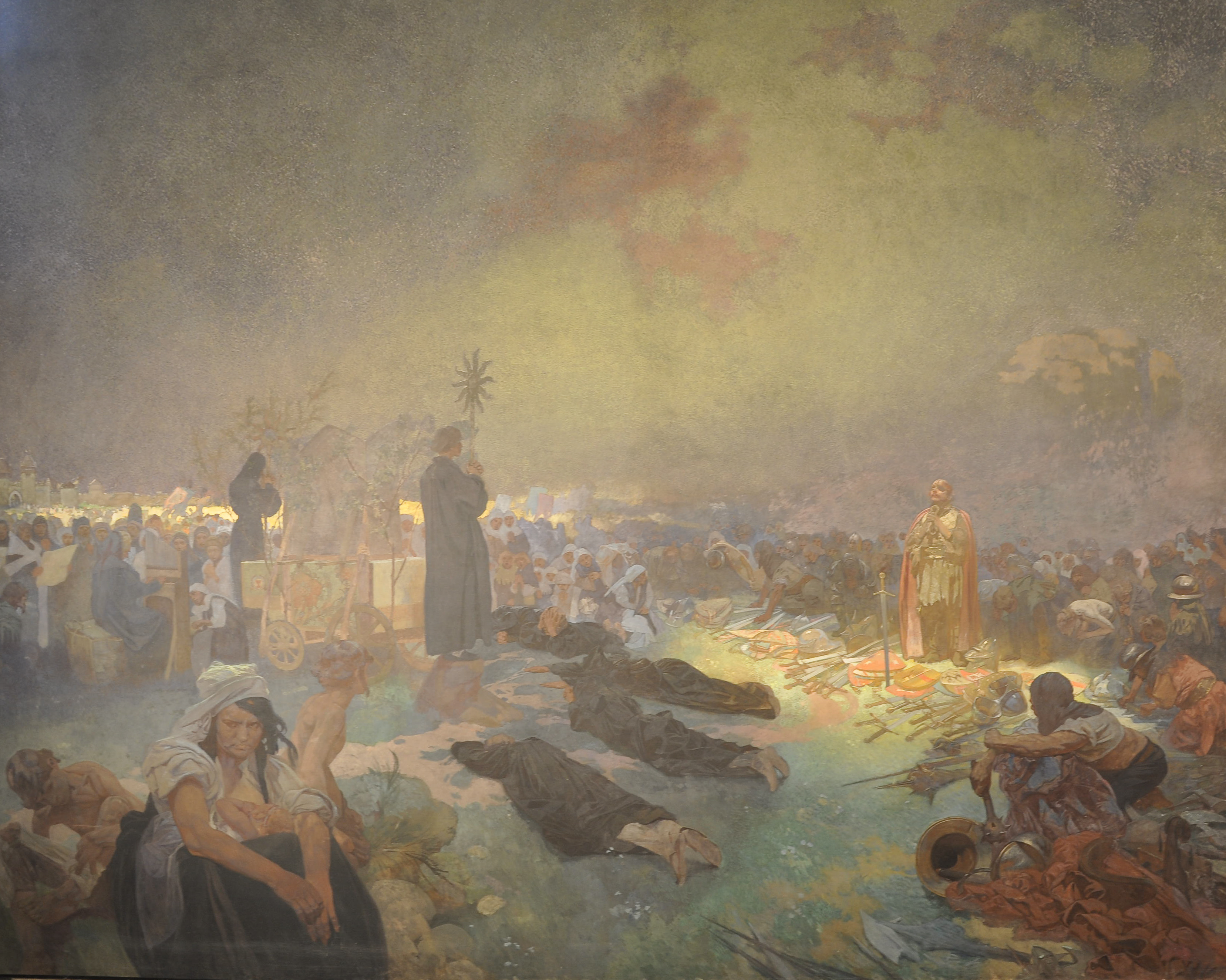 After the Battle of Vitkov Hill